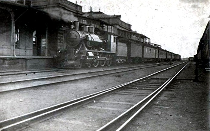 A passenger train with H8 (later Hv1) steam locomotive at Turku railway station in Turku, Finland. Photograph taken in 1920s.